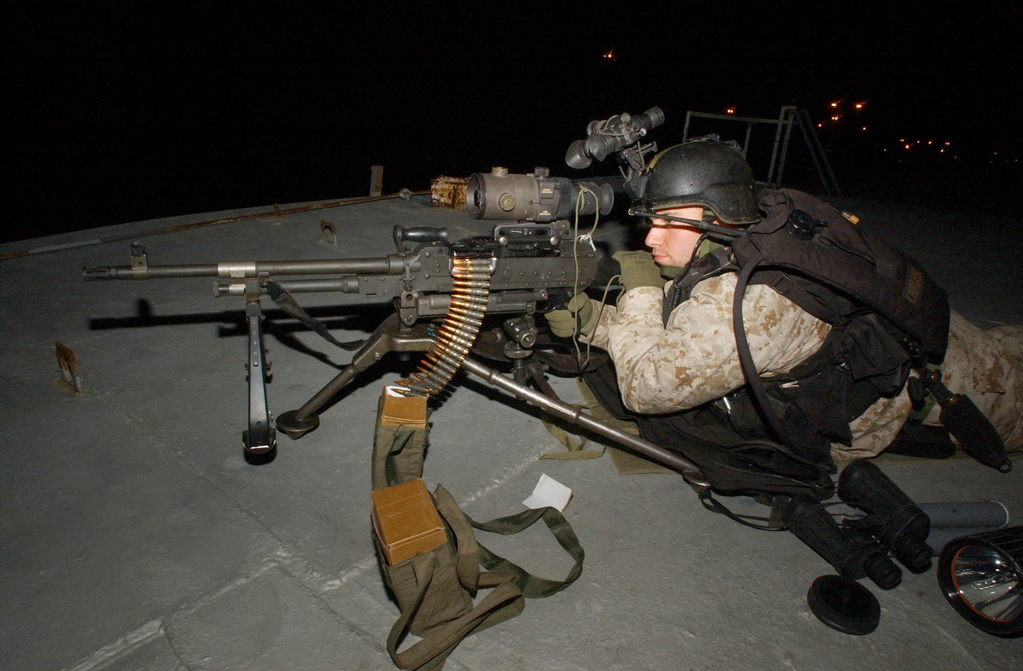 Arabian Gulf (Jan. 30, 2004)- Pfc. Justin McLachlan assigned to the 1st Fleet Anti-terrorism Security Team (FAST) 6th Platoon, scans the horizon for the enemy during a training exercise in the region. The guided missile cruiser USS Philippine Sea (CG 58) and 1st FAST 6th Platoon and are forward deployed to the Arabian Sea in support of Operations Iraqi Freedom and Enduring Freedom. U.S. Navy photo by Photographer's Mate 2nd Class Jeffrey Lehrberg. (RELEASED)